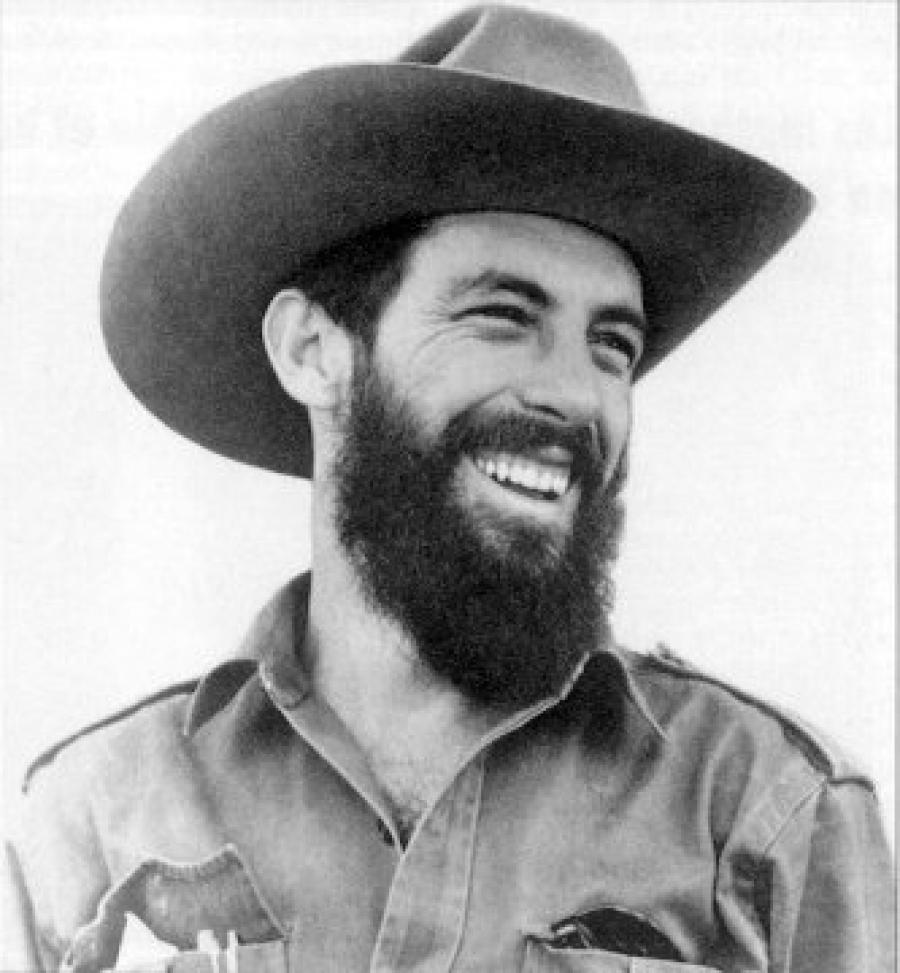 Camilo Cienfuegos — in Cuba in the 1950s.